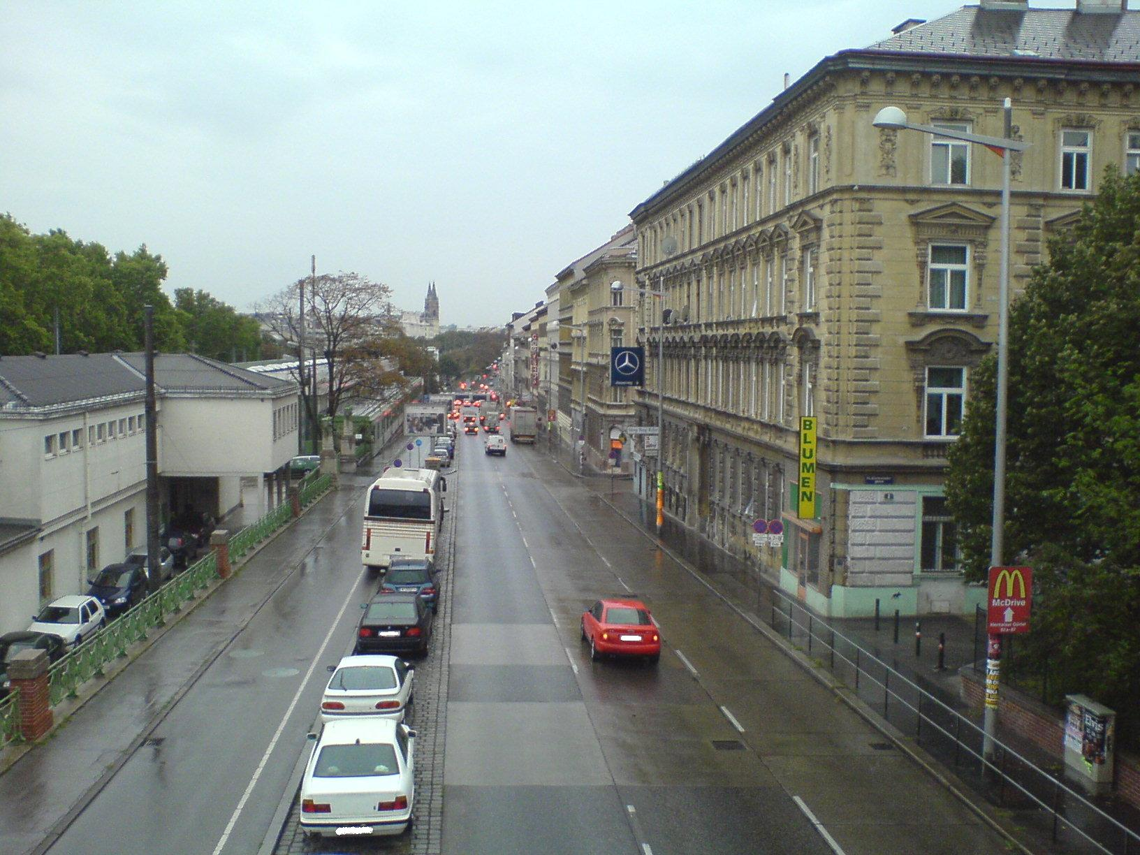 Vienna Währinger Gürtel, as viewn south from the Michelbeuern bridge